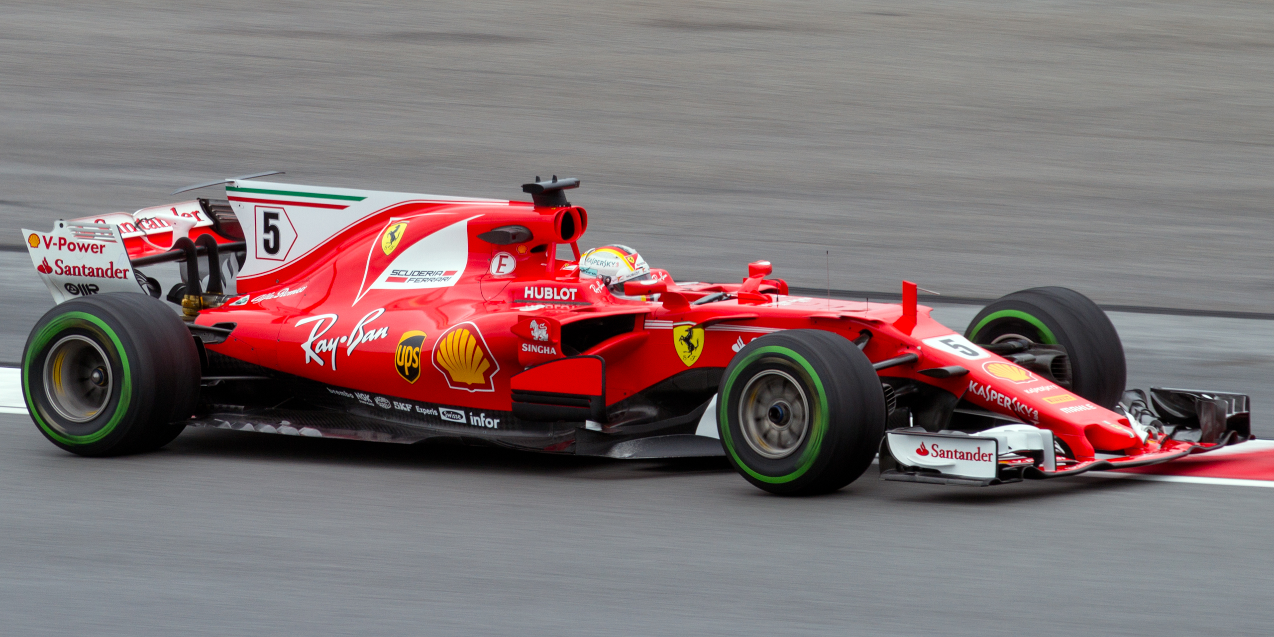 Formula One 2017 Rd.15 Malaysian GP: Sebastian Vettel (Ferrari)